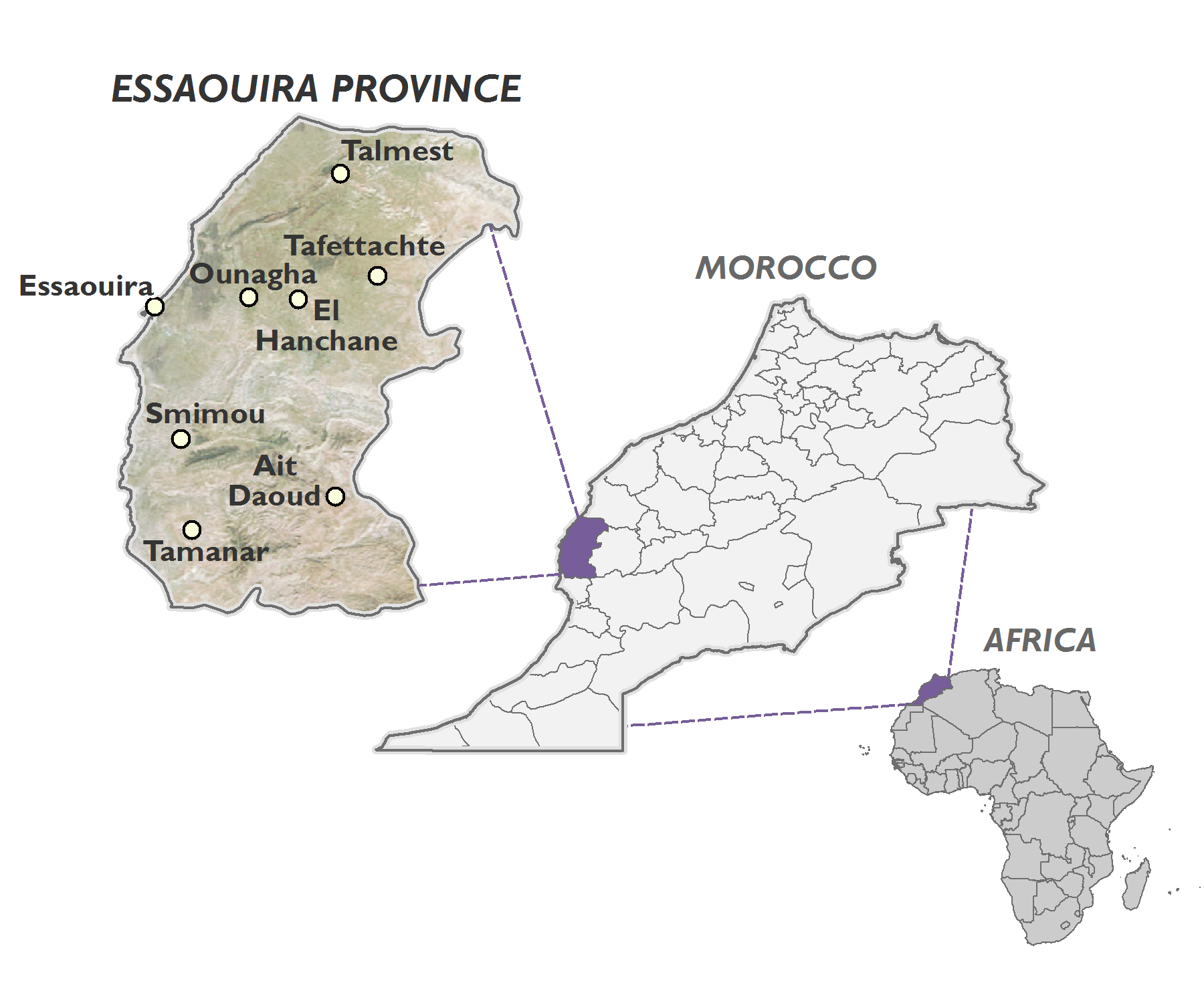 Coordinate system: GCS_WGS_1984 Scales: 1:2,000,000 (Essaouira) 1:16,000,000 (Morocco) 1:229,000,000 (Africa) Source/License info: Morocco polygons: “These data were extracted from the GADM database ( version 2.5, July 2015. They can be used for non-commercial purposes only. It is not allowed to redistribute these data, or use them for commercial purposes, without prior consent.” City points: “The files in this archive have been created from OpenStreetMap data and are licensed under the Open Database 1.0 License. for details about the project. This file contains OpenStreetMap data as of 2014-09-03T20:22:02Z courtesy of OpenStreetMaps is a work-in-progress and these shafile map layers are offered for free for any use you see fit. Therefore we cannot guarantee that they are accurate, but we do promise that using the map layer may be fun, entertaining or educational - perhaps frustrating. Beyond this, we make no guarantee as to its suitability for any purpose. We assume no liability or responsibility for errors or inaccuracies. Please understand that you use these map layers at your own risk. Visit for more free GIS shapefiles of the world.” Raster basemap image (georeferenced after download): “Credit: Jacques Descloitres, MODIS Rapid Response Team, NASA/GSFC. Most images published in Visible Earth are freely available for re-publication or re-use, including commercial purposes, except for where copyright is indicated. In those cases you must obtain the copyright holder’s permission; we usually provide links to the organization that holds the copyright. We ask that you use the credit statement attached with each image or else credit Visible Earth; the only mandatory credit is NASA. For more information about using NASA imagery visit